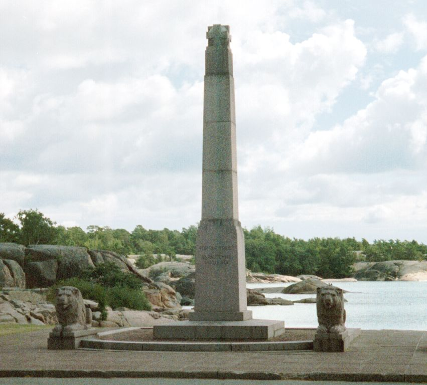 Liberty monument in Hanko, Finland